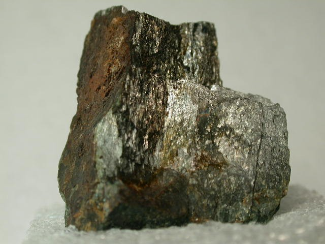 Enstatite, a 2.6 by 2.2 cms crystalline mass from a classic locality - Locality: Tilly Foster mine, Brewster, Putnam County, New York, USA